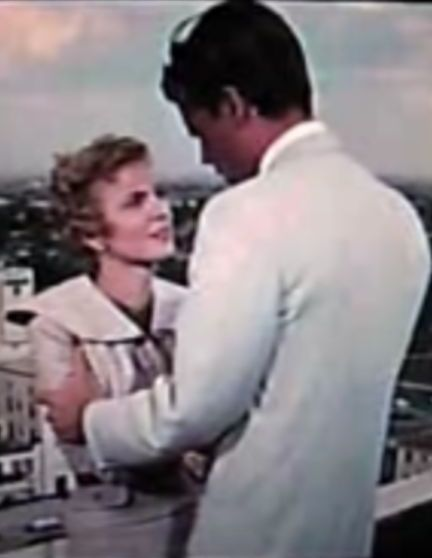 Cropped screenshot of Joanne Woodward from the trailer for the film A Kiss Before Dying